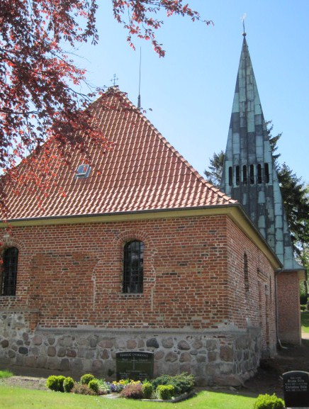 Hamberge church from little bit more north than east.